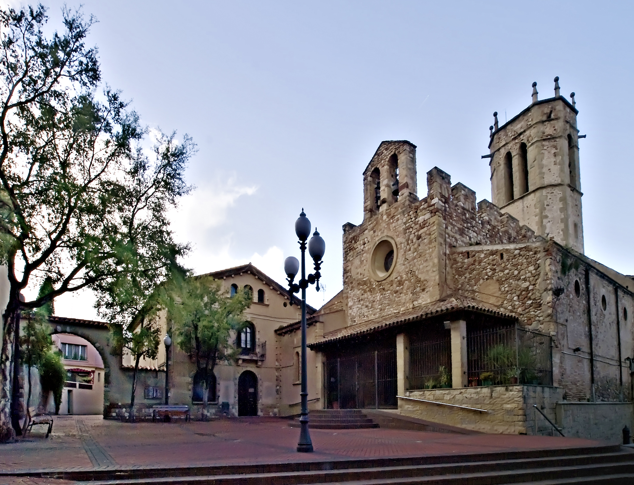 Santa Perpetua de la Mogoda church (Catalonia, Spain)